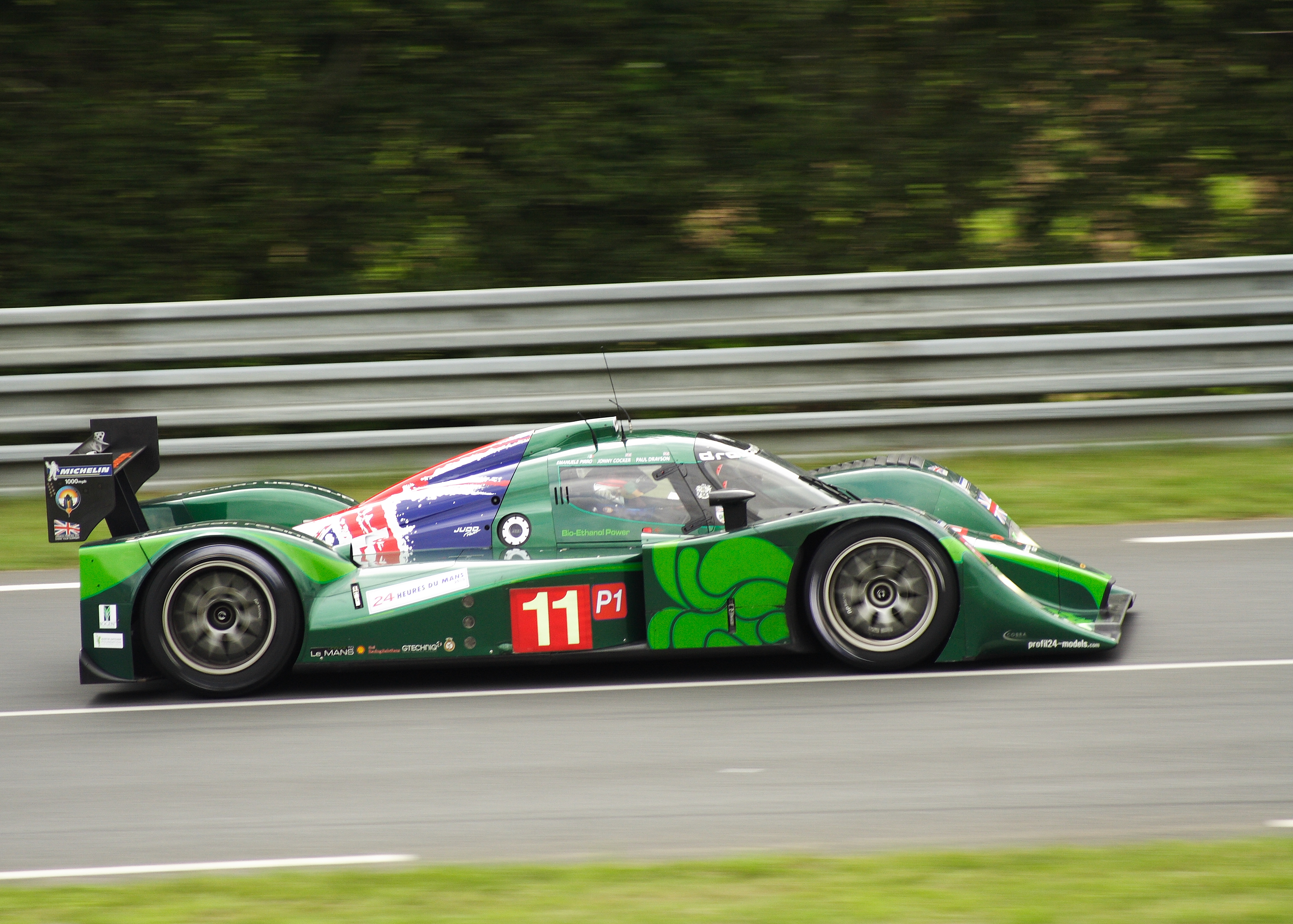 Le Mans 24 Hour Race 2010: Paul Drayson driving the Lola B09/60.